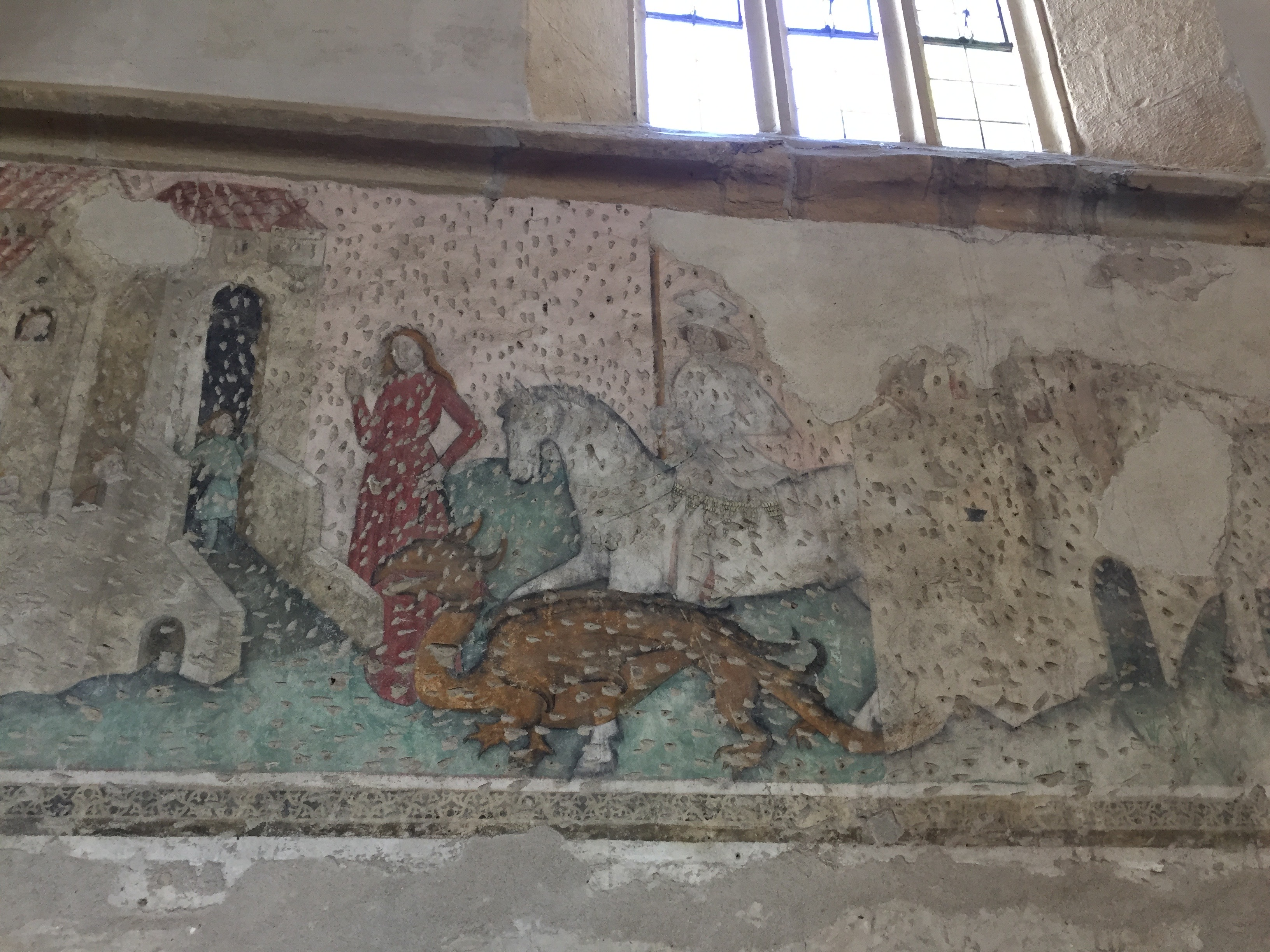 Fresco on the North wall of the Mountain Church of Sighișoara, uncovered during restorations, showing signs of iconoclasm